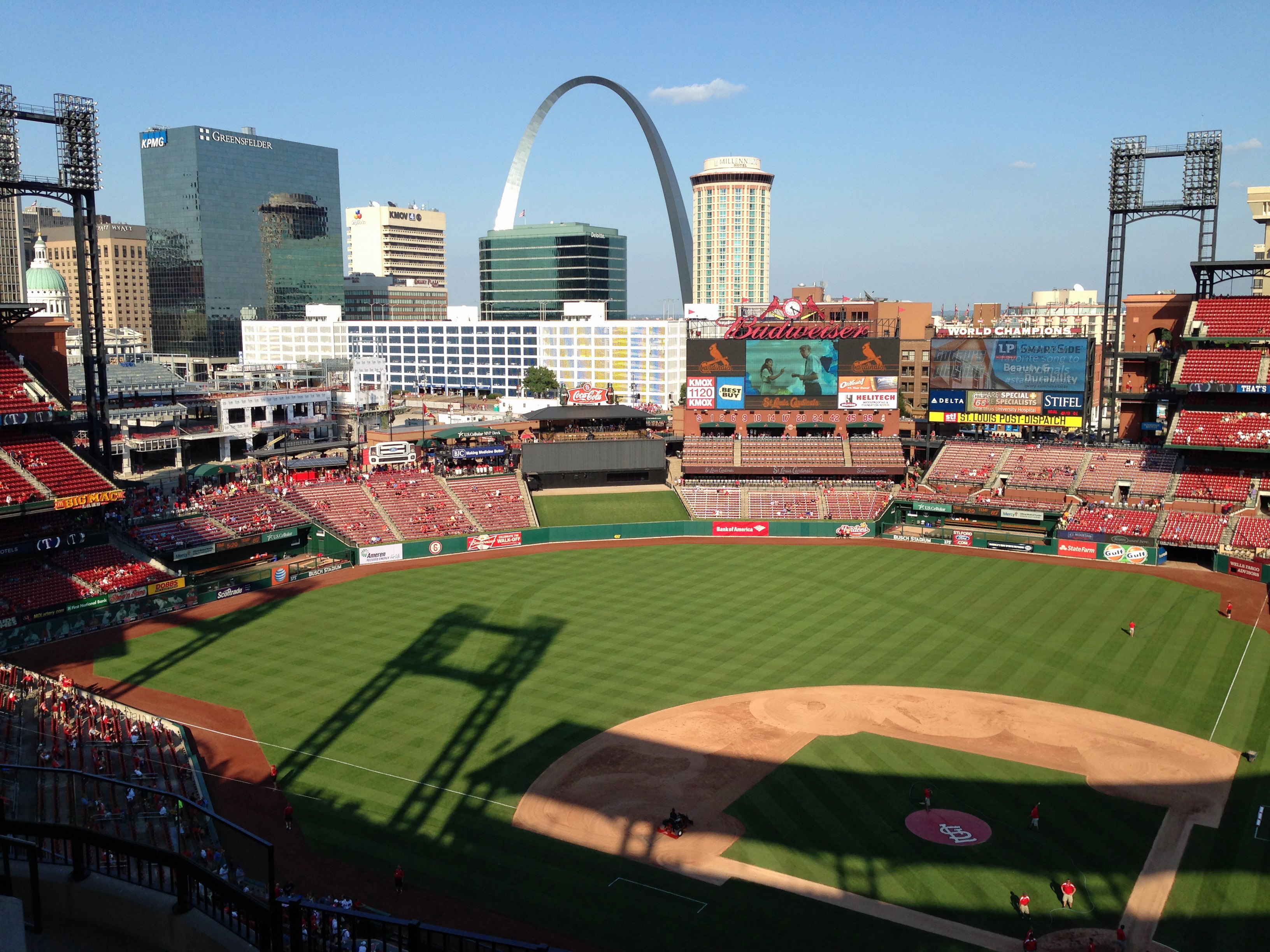 Busch Stadium and the St. Louis skyline on August 24, 2013.